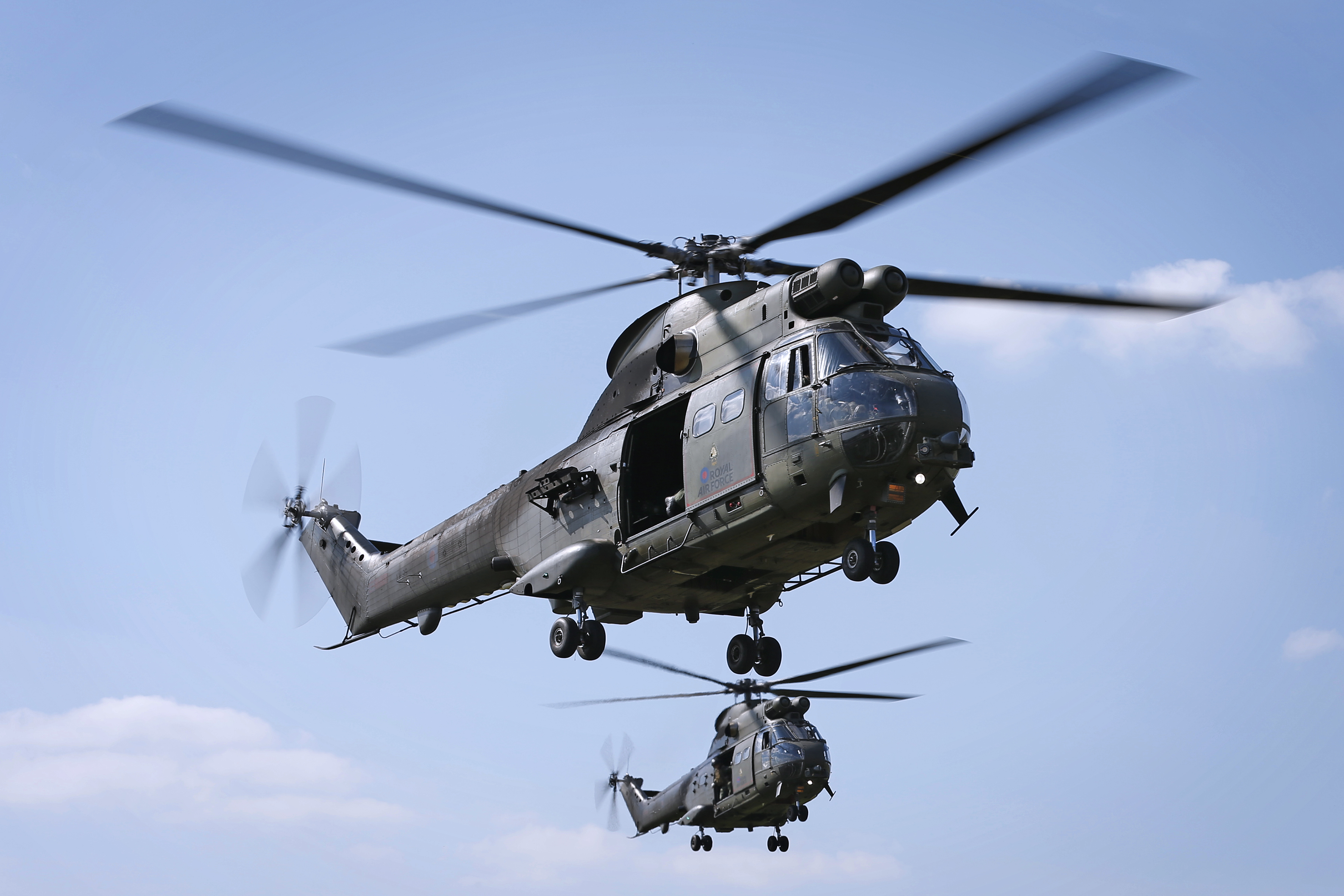 Pictured are two RAF Benson Puma 2 helicopters undertaking training during EX AGILE SPEAR 15.Over 100 personnel from the Royal Air Force and British Army deploy to Salisbury Plain Training Area to conduct EXERCISE AGILE SPEAR 15.The Puma Force, Chinook Force, Joint Helicopter Force Headquarters, Tactical Supply Wing, Joint Helicopter Support Squadron, 244 Signals Squadron, 132 Aviation Support Squadron of 7 Battalion REME and 606 (Chiltern) Squadron Royal Auxiliary Air Force join together for a week of intense training for contingency operations.The exercise simulates the Armed Forces being called upon to conduct non-combatant evacuation operations (NEO), one of the many tasks that form the high-readiness contingent capabilities of Defence.